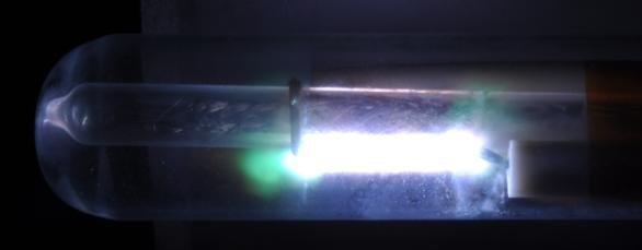 A 20 kV triggered spark gap, part of a high speed photographic flash system.